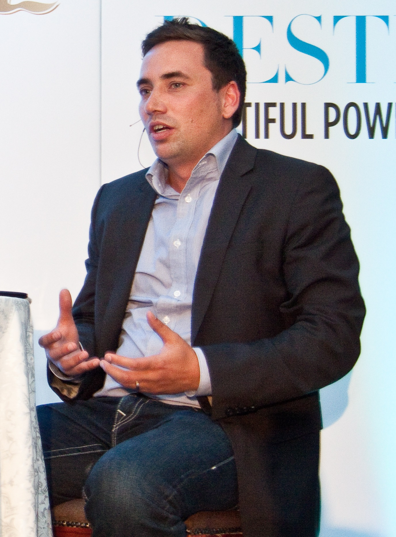 Matthew Buckland at the Top 40 Entrepreneurs under 40 Destiny Man roadshow